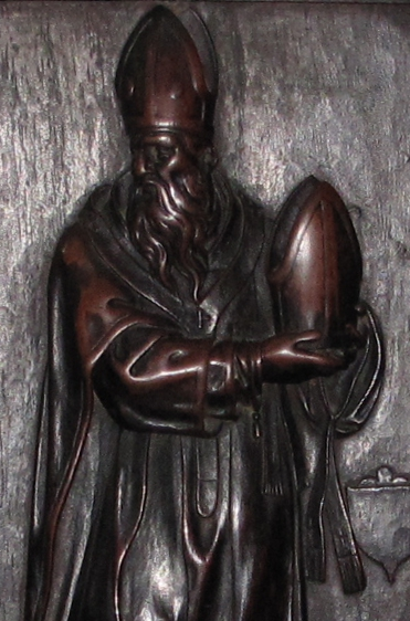 Protasius (bishop of Milan) - wooden statue in the Choir (1567-1614) of the Cathedral of Milan